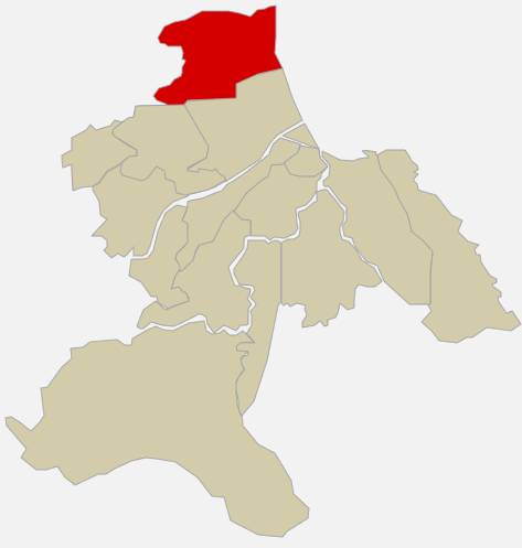 There was ichikawa village until 1955. Now it is part of Hachinohe city.